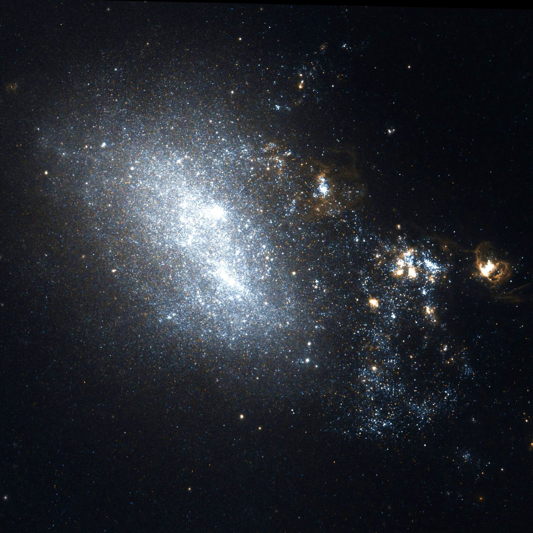 NGC 4485 galaxy by Hubble space telescope